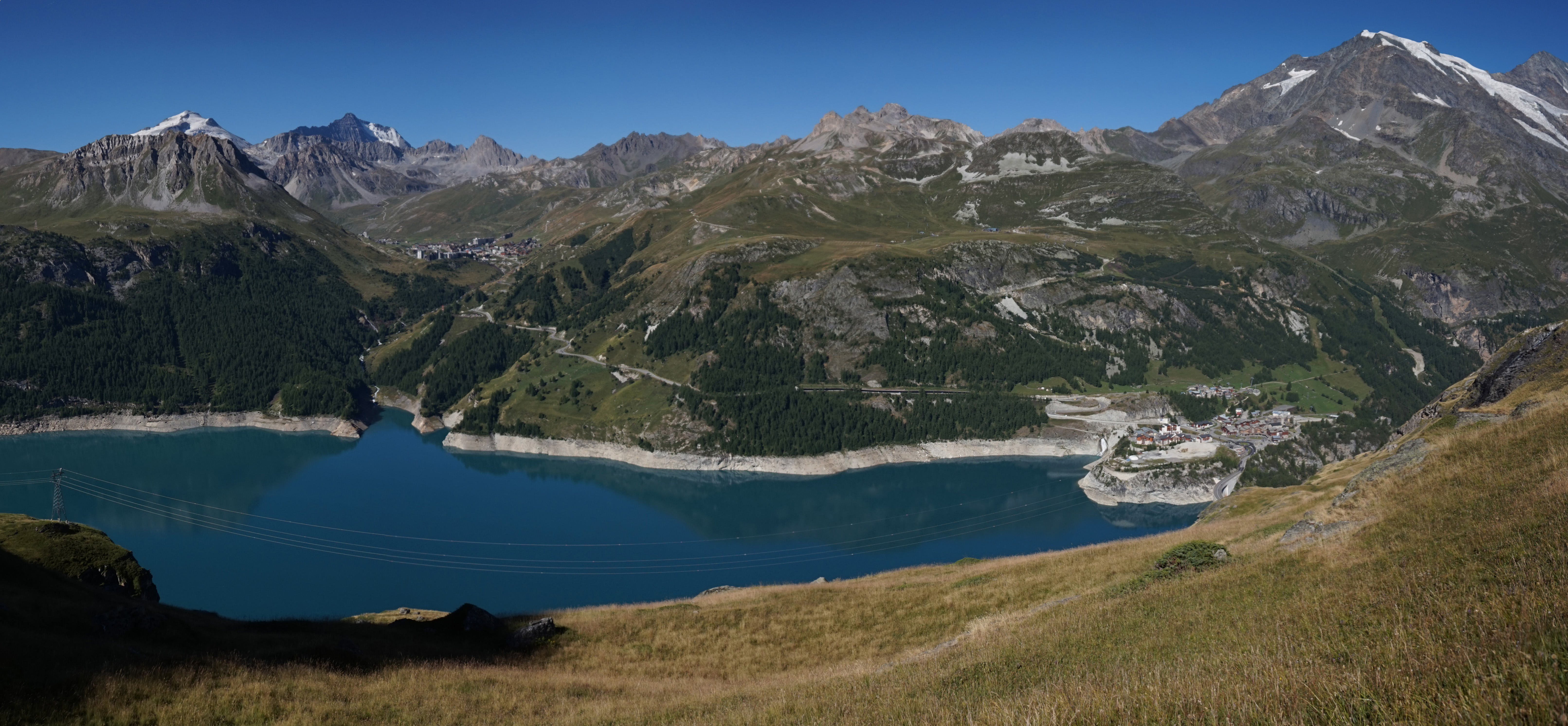 Lac du Chevril in Tignes. On the left is the district Les Boisses. This photograph was taken with a Sony Alpha a5000.